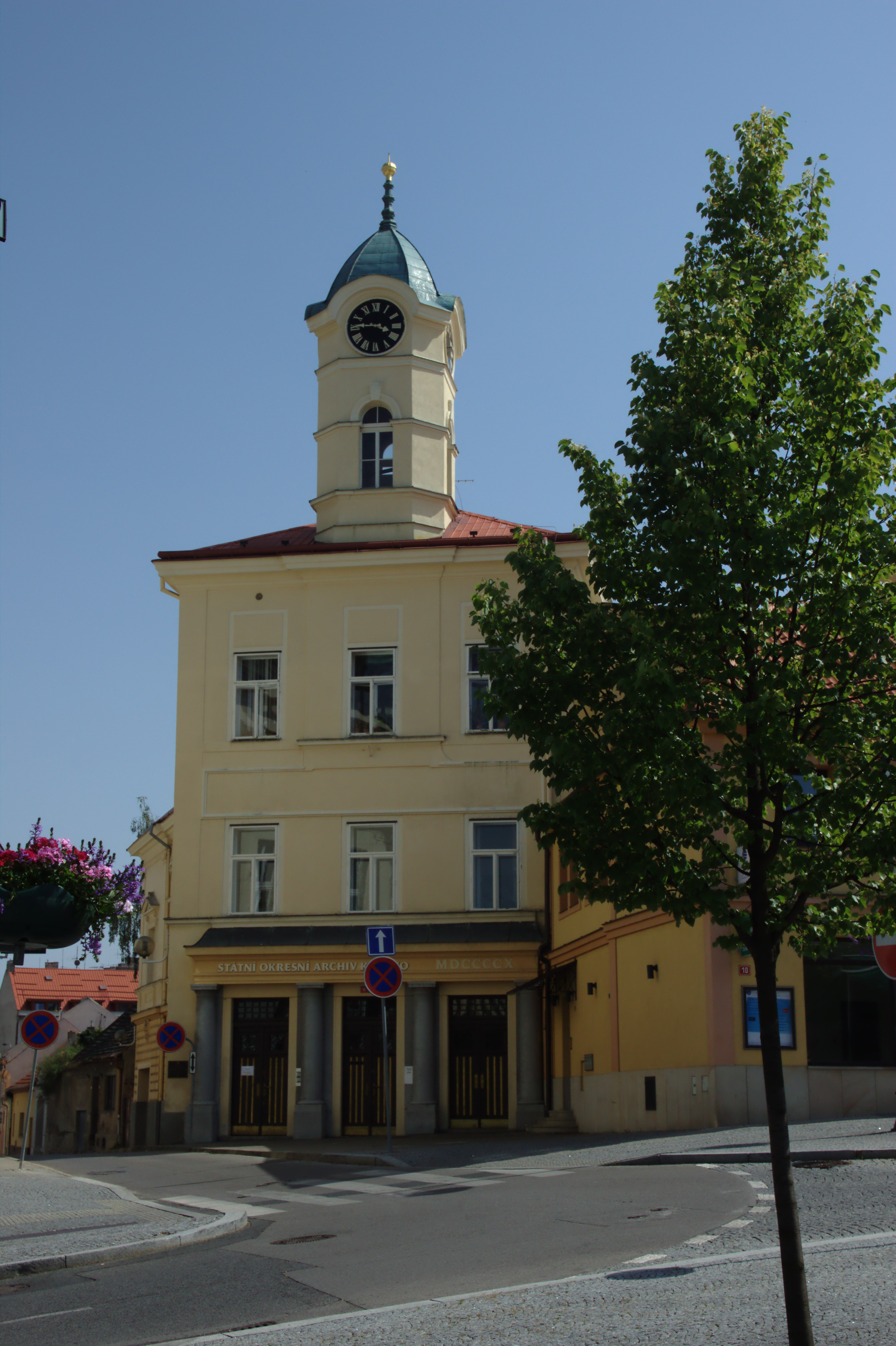 Building of District Archives (originally town hall, until 1877), Kladno city centre, Central Bohemian Region, CZ